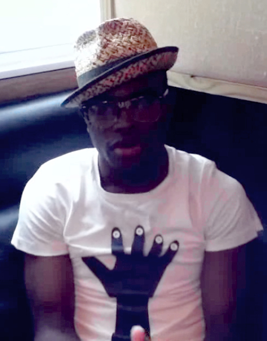 From Central Jamaica May Pen, Clarendon this youngster has vocals sweeter than a cup of hot Jamaican Blue Mountain Coffee with unpasteurized milk and home grown Jamaican brown sugar.